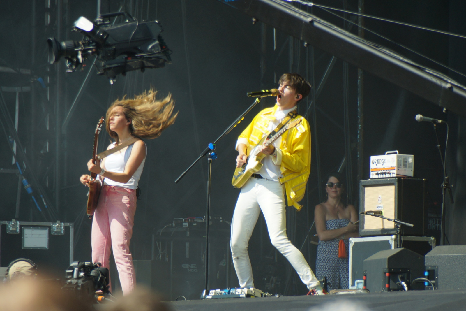 Declan McKenna on stage at TRNSMT, Glasgow Green